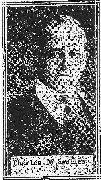 Portrait of Charles de Saulles